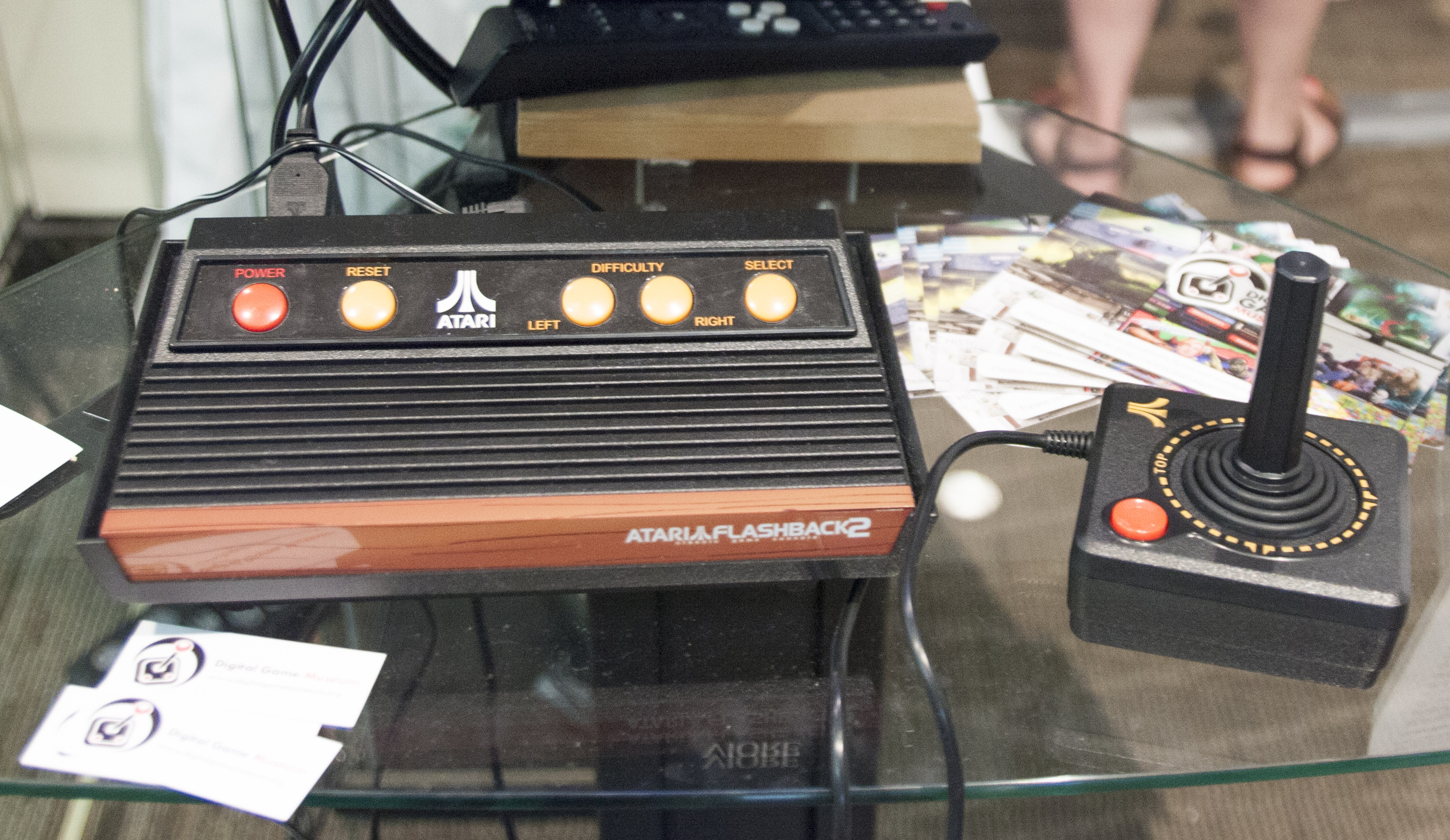 The Atari Flashback 2 is a modernized re-release of the Atari 2600. It has no cartridge slot, instead coming with forty games loaded into the machine’s on board memory. It reproduces the Atari 2600 on a single chip, meaning the Flashback 2 is not an emulator and instead performs exactly the same as the original 2600. It plays every game exactly as it was played originally. Some enthusiasts have modified the Flashback 2 with a cartridge slot, finding it can play original 2600 cartridges too. The Flashback 2’s controllers are reproductions of the original Atari 2600 Joystick, and the Flashback 2 is compatible with the original Paddle controllers though they have not been remade. More detail is available on our online exhibit .